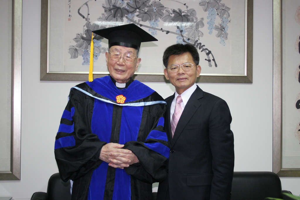 Paul Shan Kuo-hsi awarded Honorary Doctor of Education by National Kaohsiung Normal University. The governor of Kaohsiung County Chiu-hsing Yang is standing beside him.